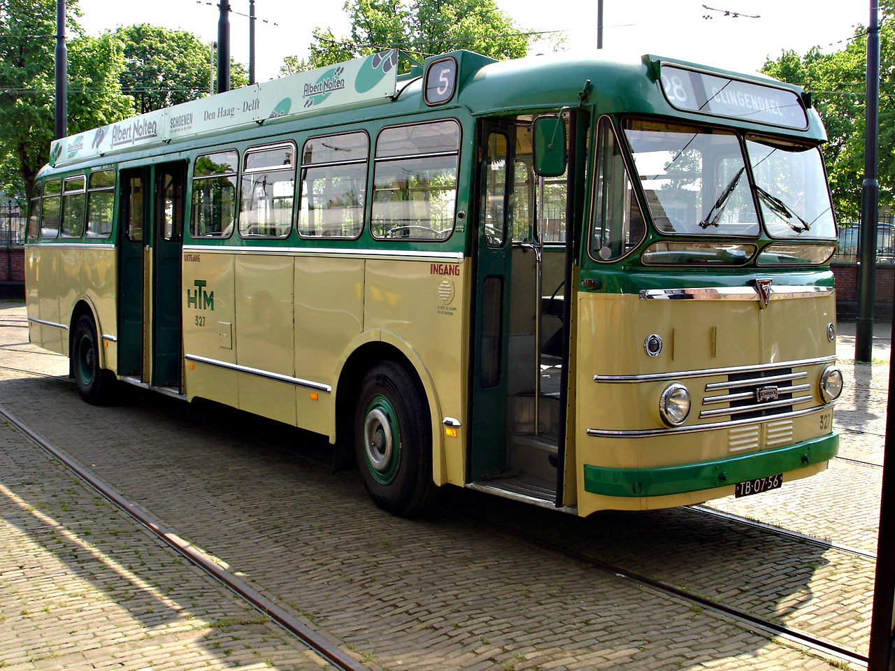 Kromhout bus nr.327, HTM,The Hague, The Netherlands.